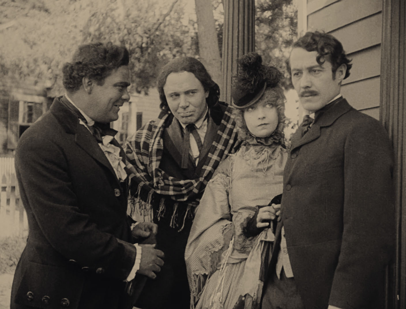 Left to right: George Siegmann, Ralph Lewis, Lillian Gish, and Henry B. Walthall in The Birth of a Nation - cropped screenshot